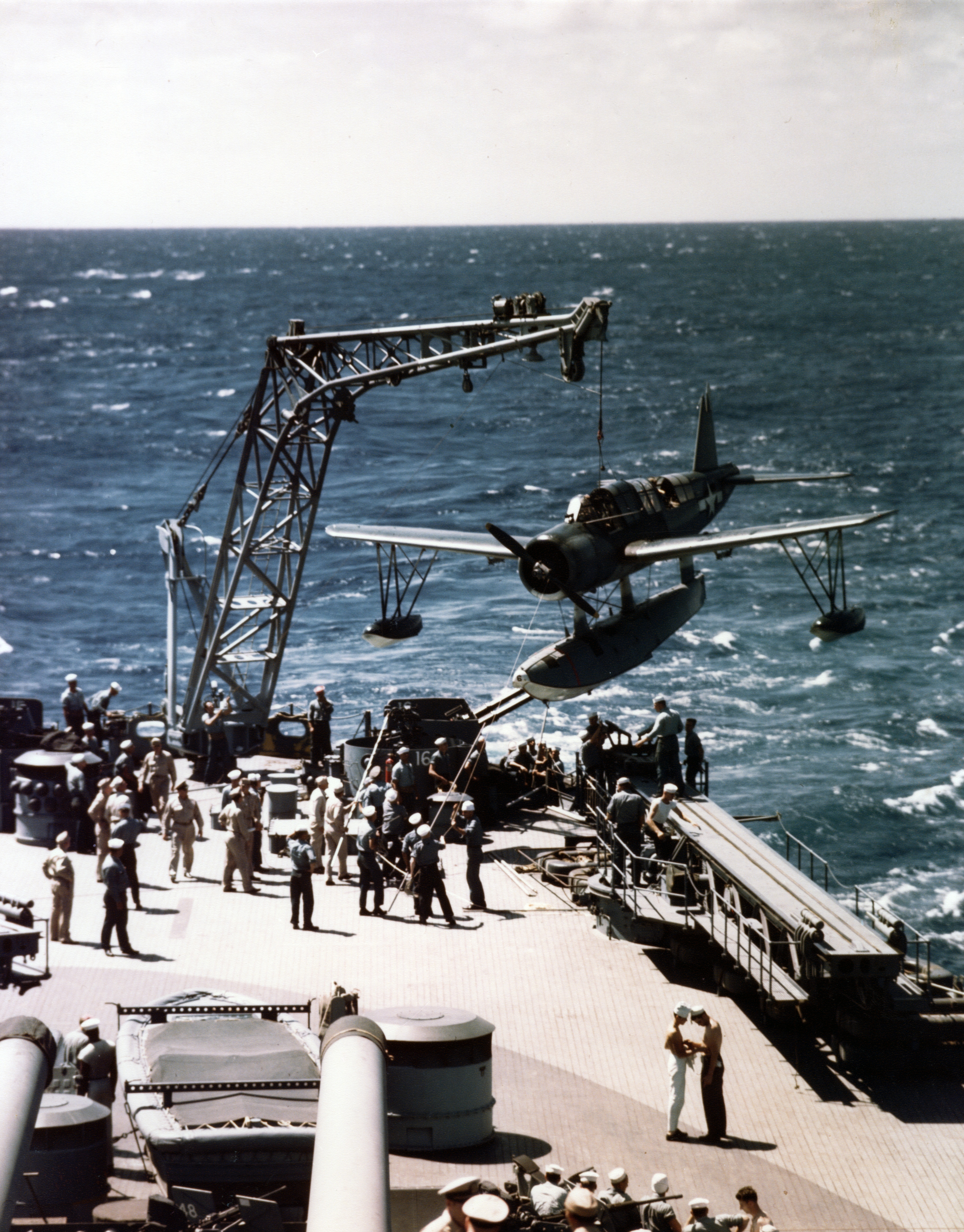 A U.S. Navy Vought OS2U-3 Kingfisher floatplane is hoisted on board the USS Missouri (BB-63) after a flight, during the ship's shakedown cruise, circa August 1944.